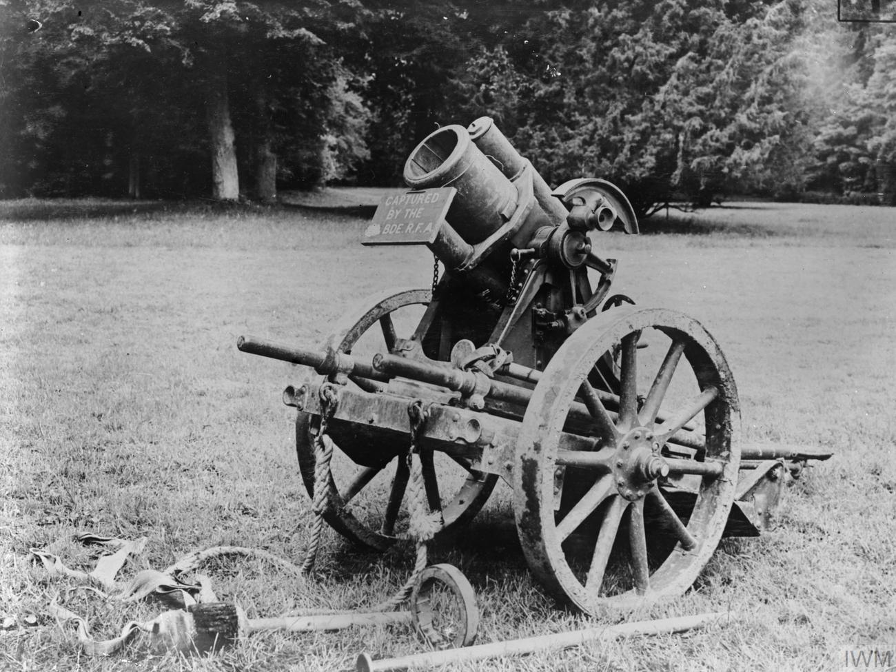 German Artillery on the Western Front German trench mortar, (17.5-centimetre) with recoil buffers On transport carriage with drag ropes. Mortar labelled as 'Captured by BDE RFA'.